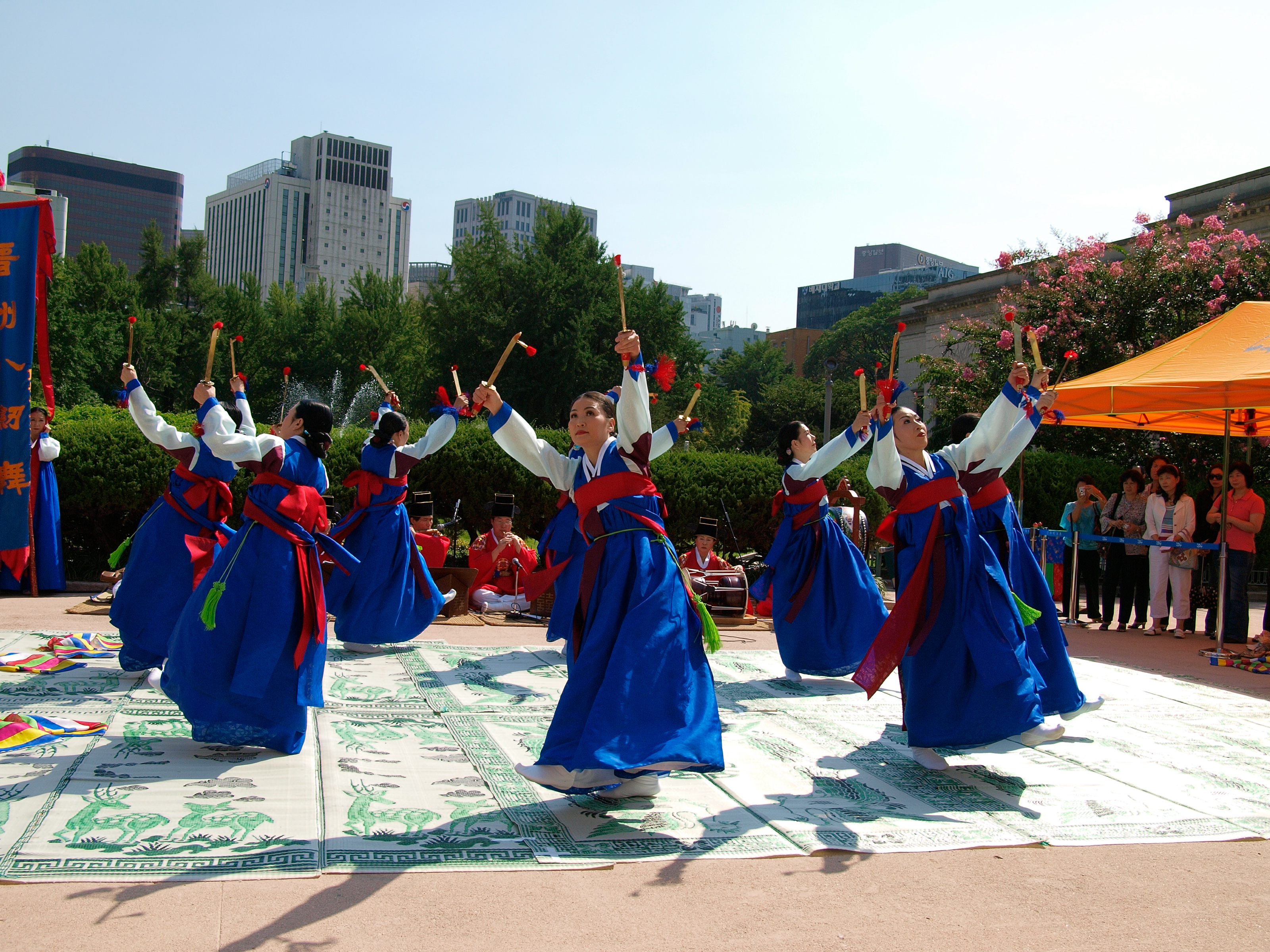 Korean sword dance-Jinju geommu